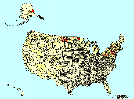 Map generated by — Stevey7788 (talk) at